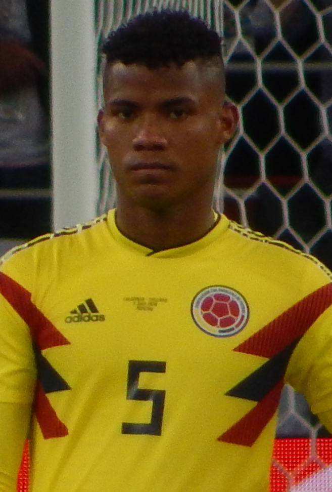 FIFA World Cup 2018, Round of 16, Colombia vs. England